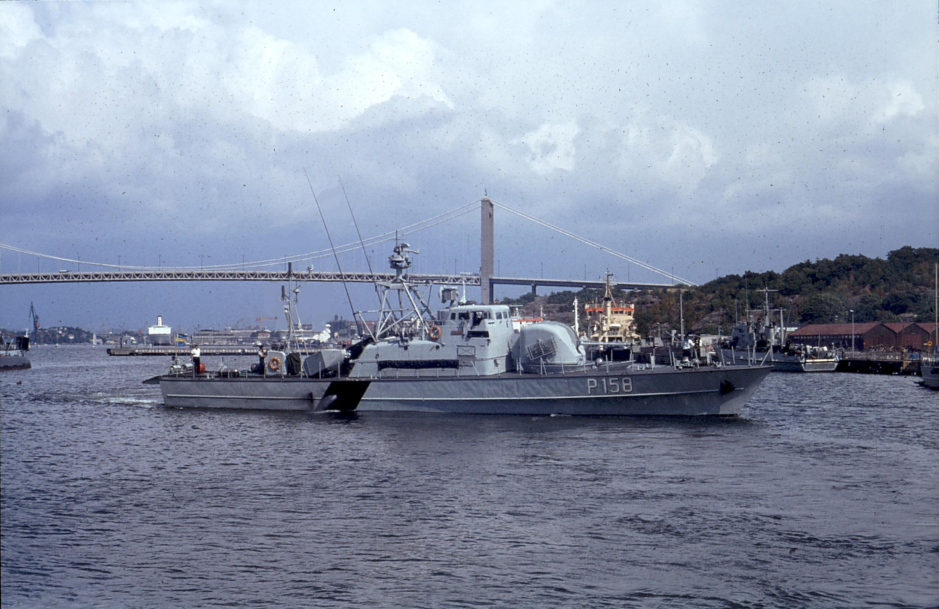 Swedish Navy Patrolboat HMS Mysing (P158) preparing to berth at Gothenburg Naval Station "Nya Varvet" in summer 1982.